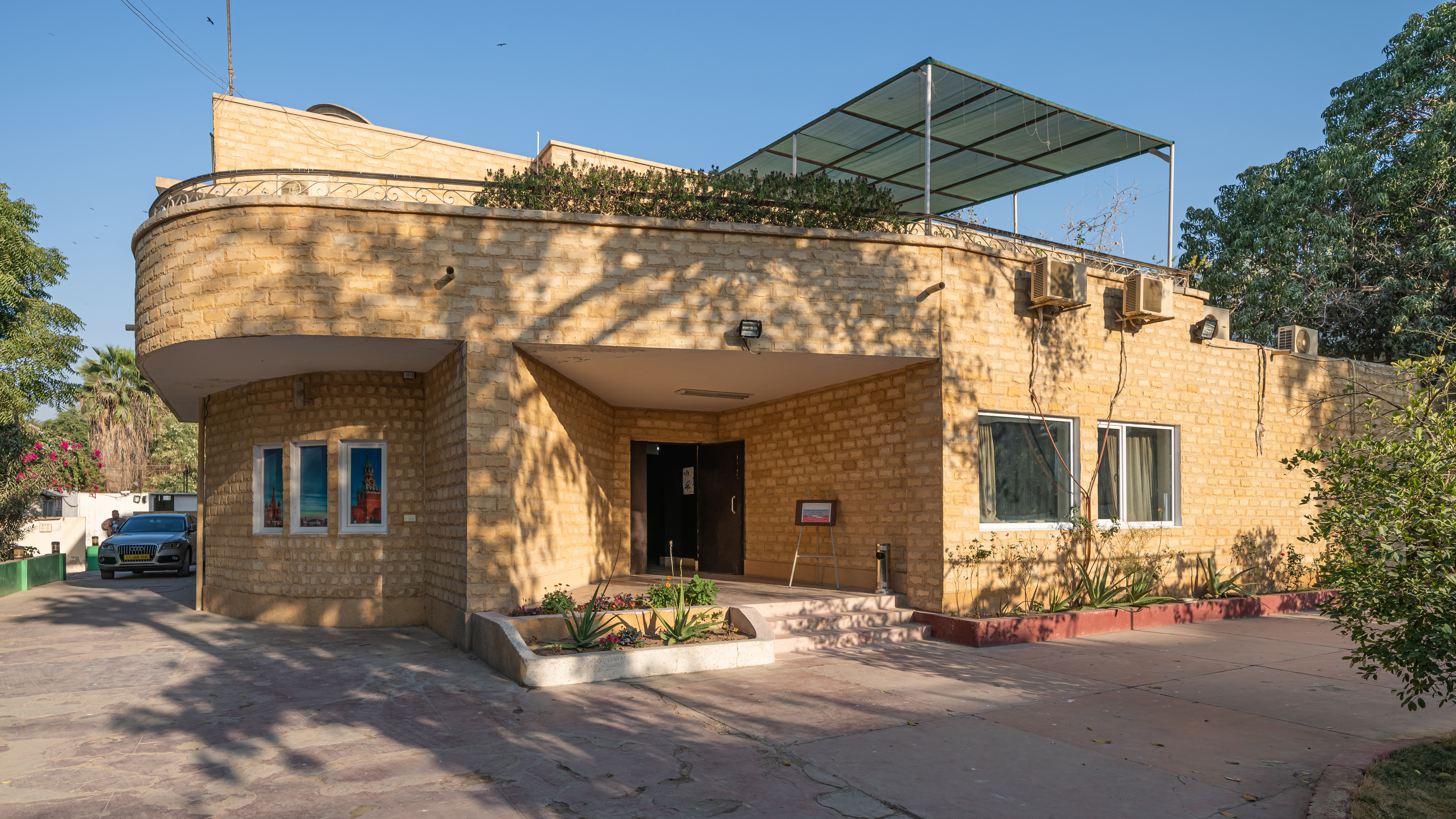 Russian Center of Science and Culture in Karachi, Pakistan